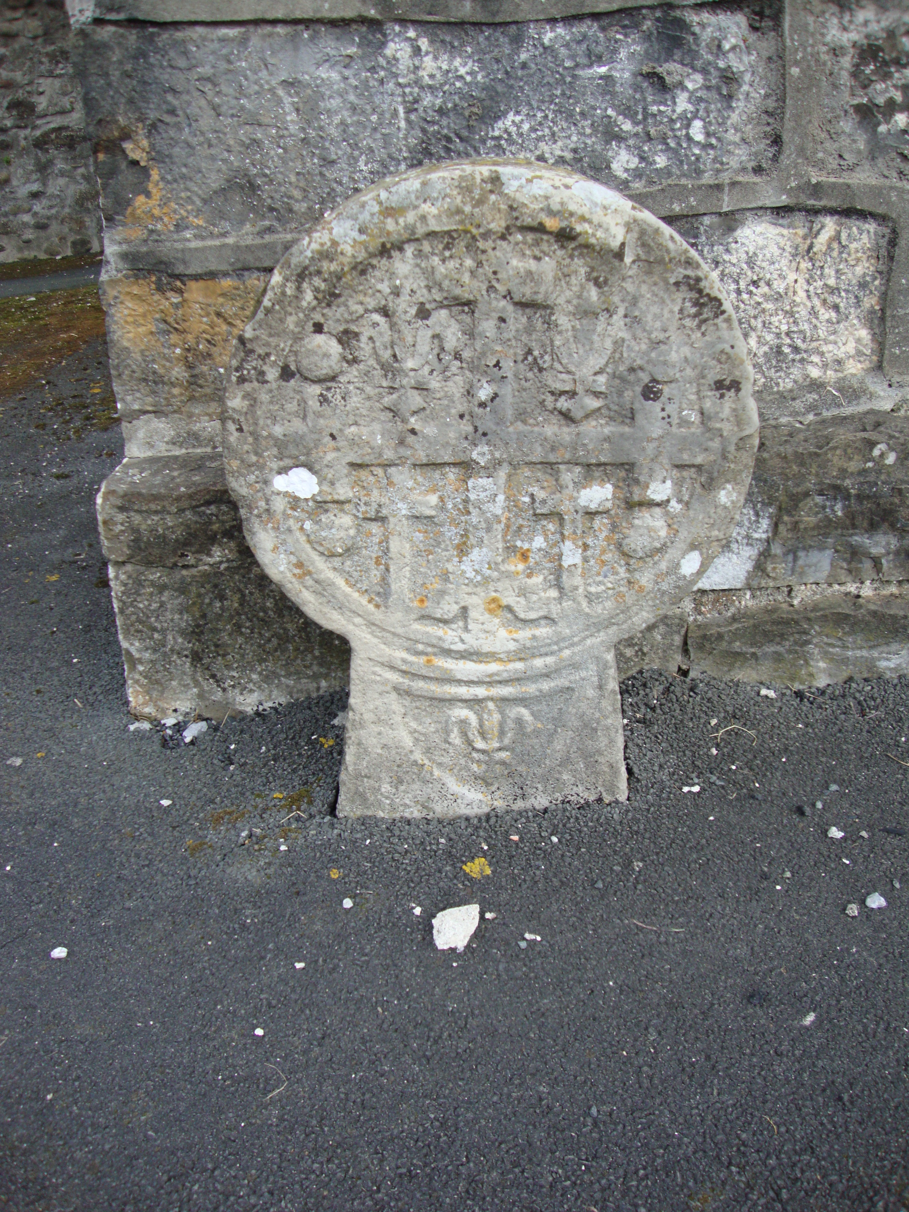 Espès-Undurein, (Pyr-Atl, Fr) old basque stele in Undurein.